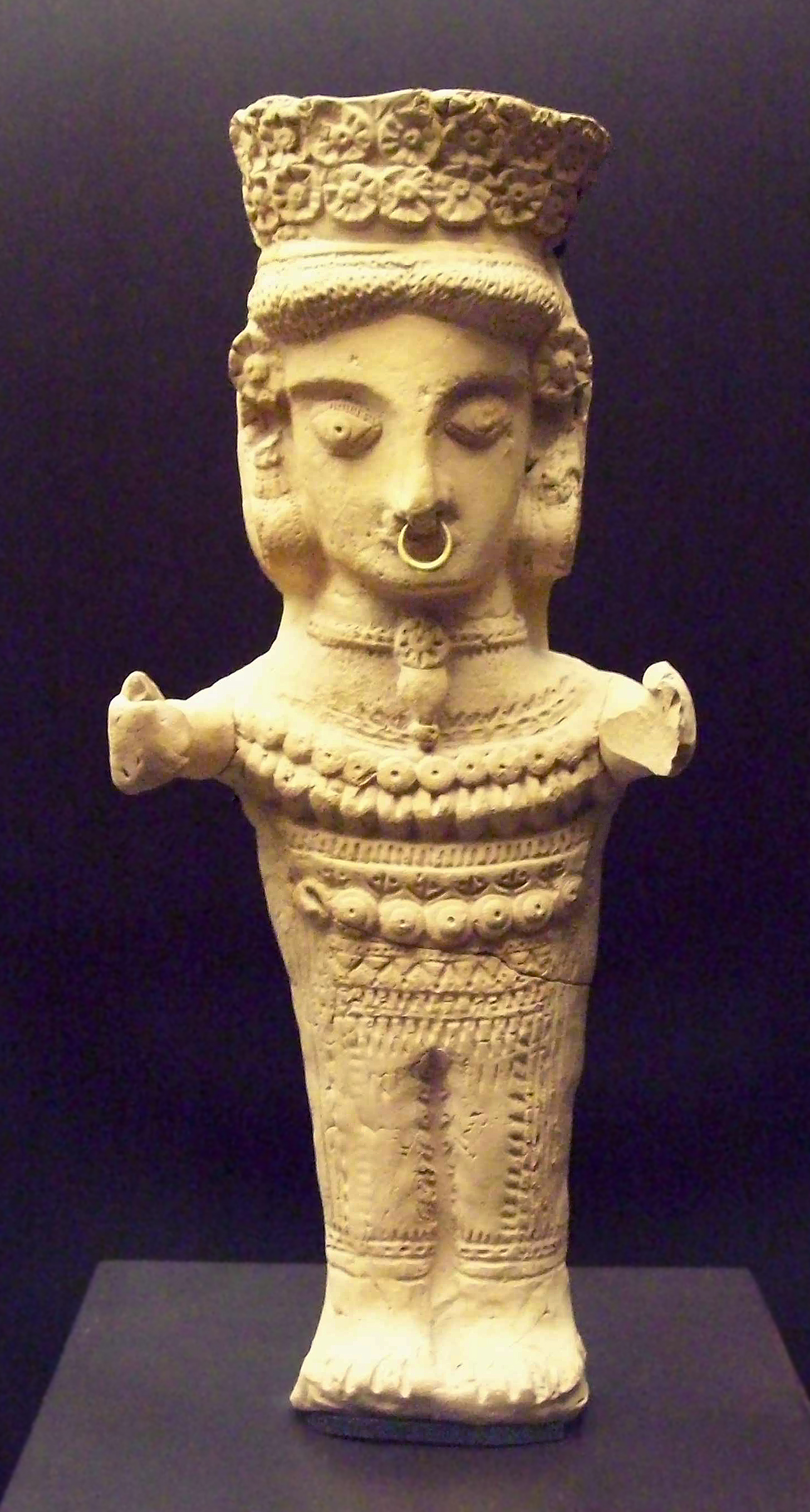 Carthaginian female figure.